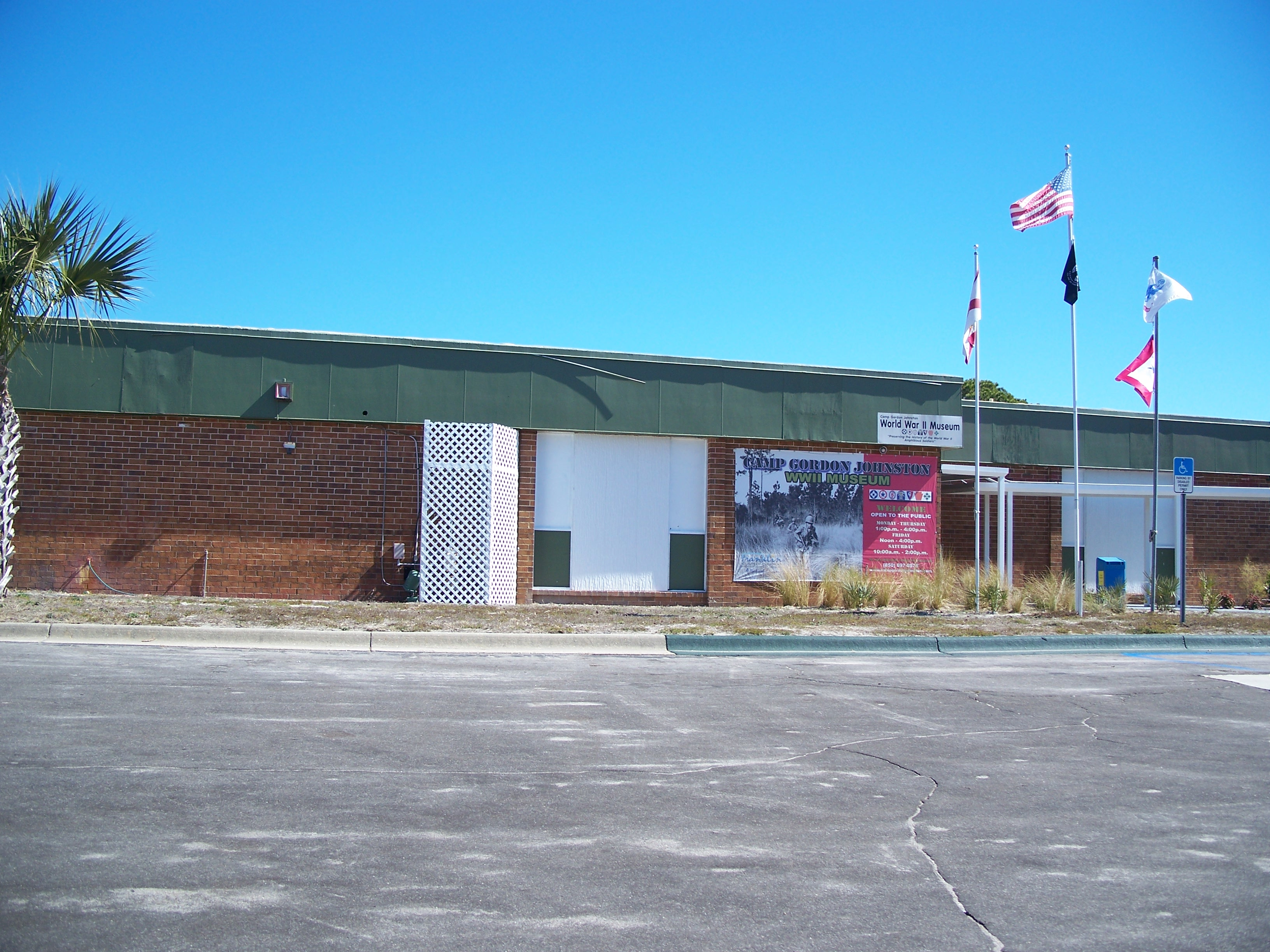 Carrabelle, Florida: Former location of World War II museum